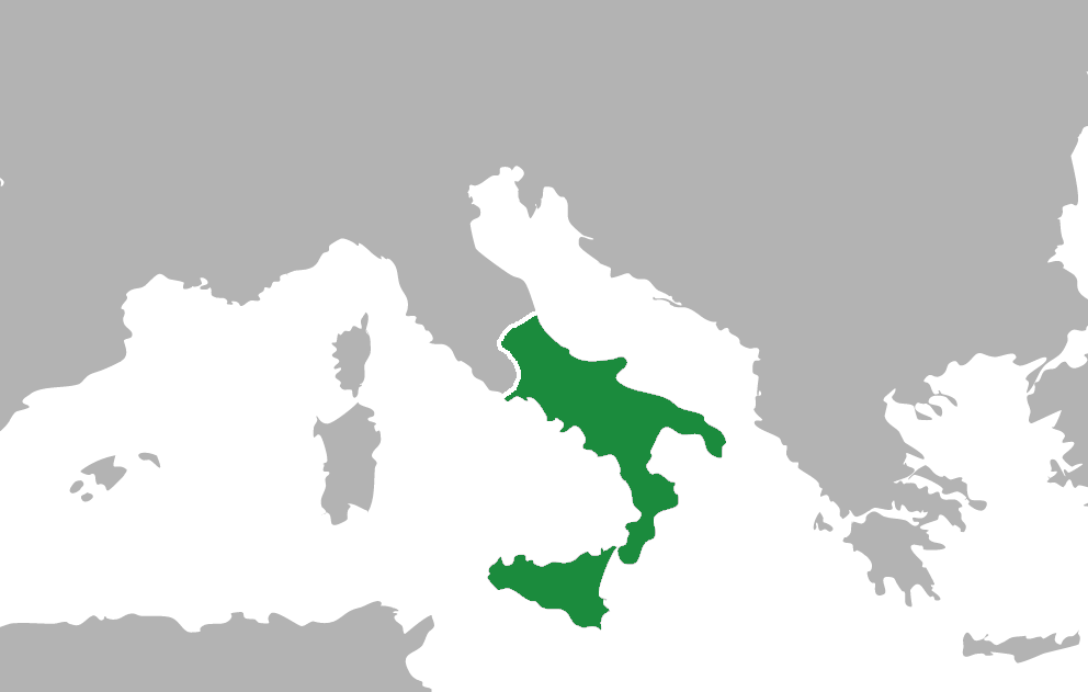 Locator map showing the Kingdom of the Two Sicilies.